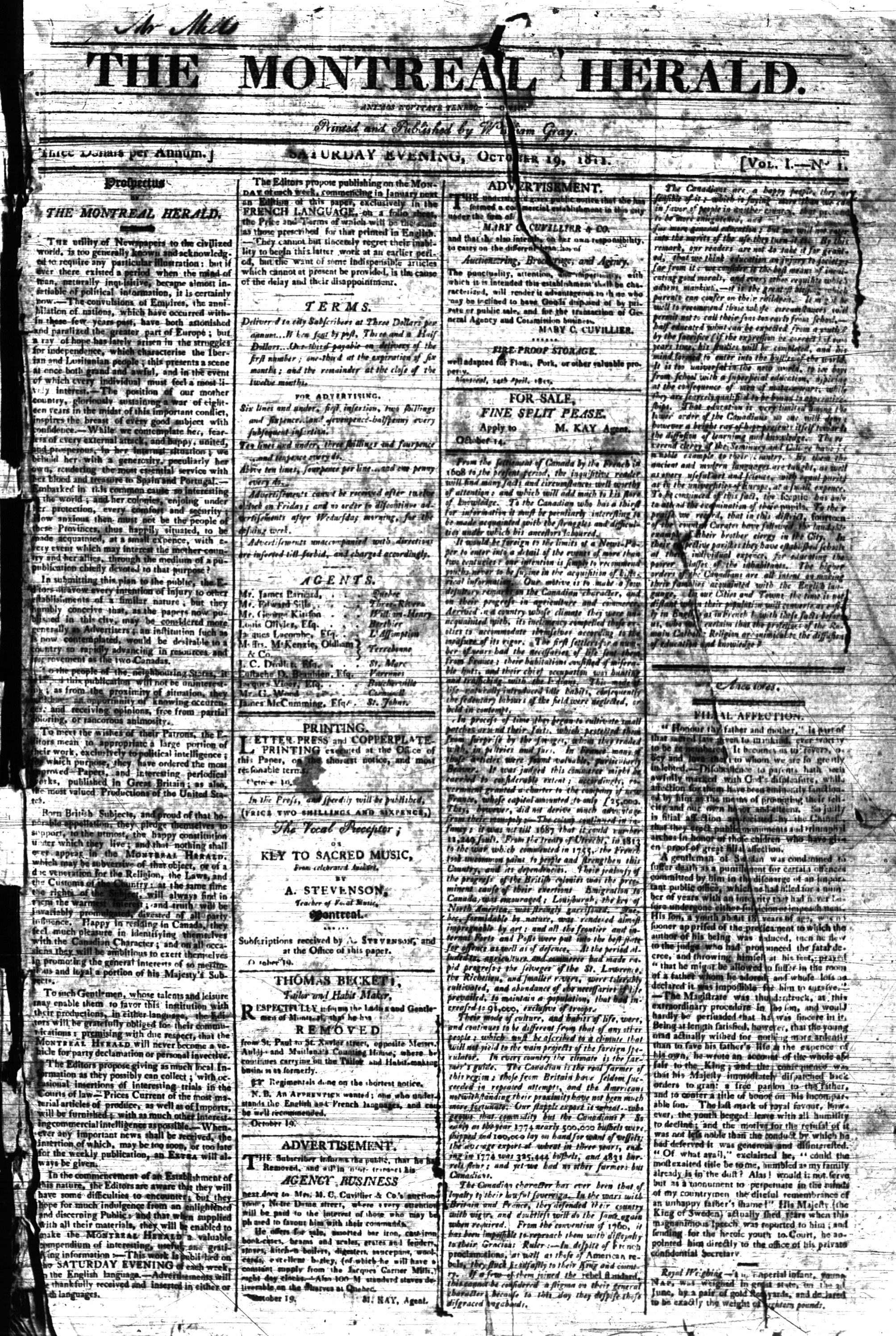 First page of the first issue of the Montreal Herald